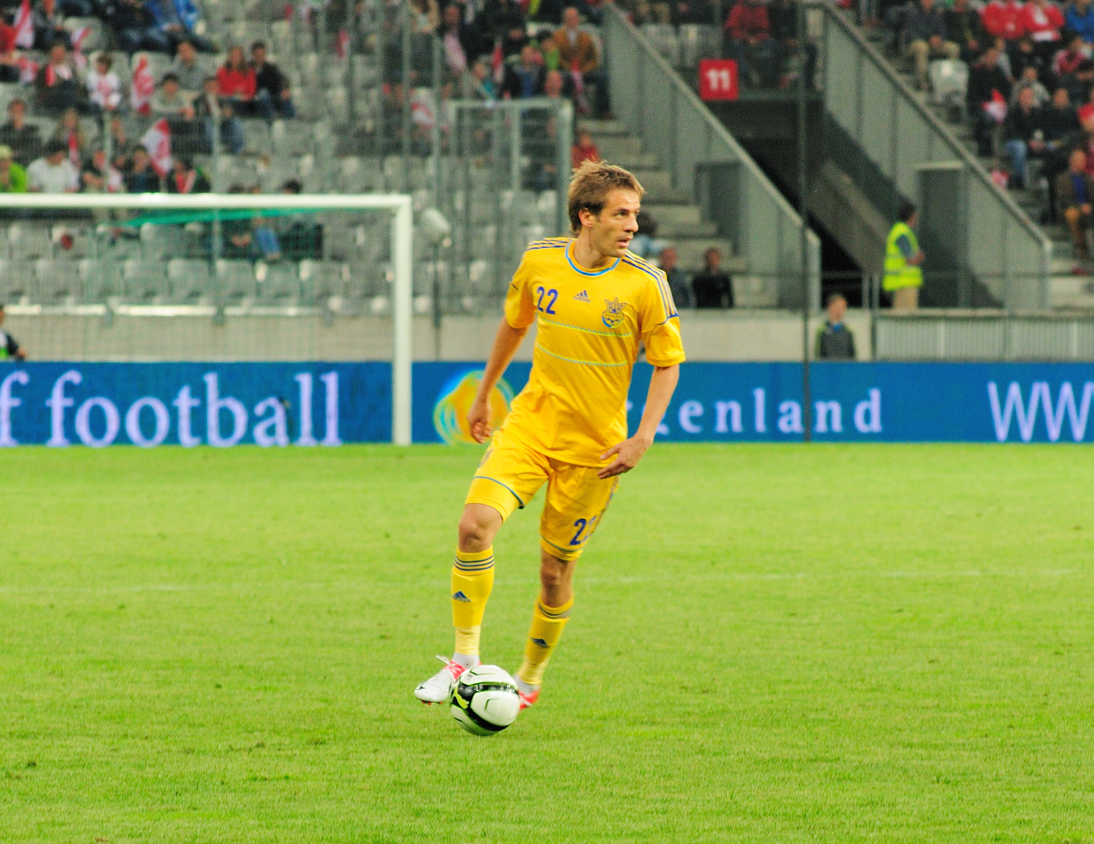 Exhibition game Austria vs. Ukraine at 1st. June 2012. Marko Devich